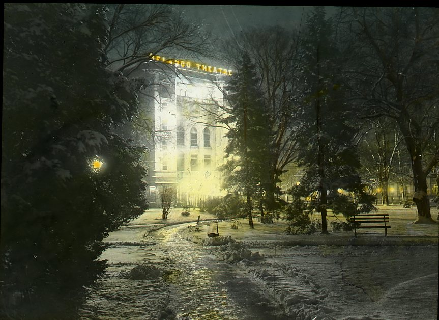 The Belasco Theatre as seen from Lafayette Square, ca 1910. Originaally built in 1895 as the Lafayette Square Opera House, it became the Belasco in 1905. The theatre was razed in 1962 to make way for the US Court of Claims building.